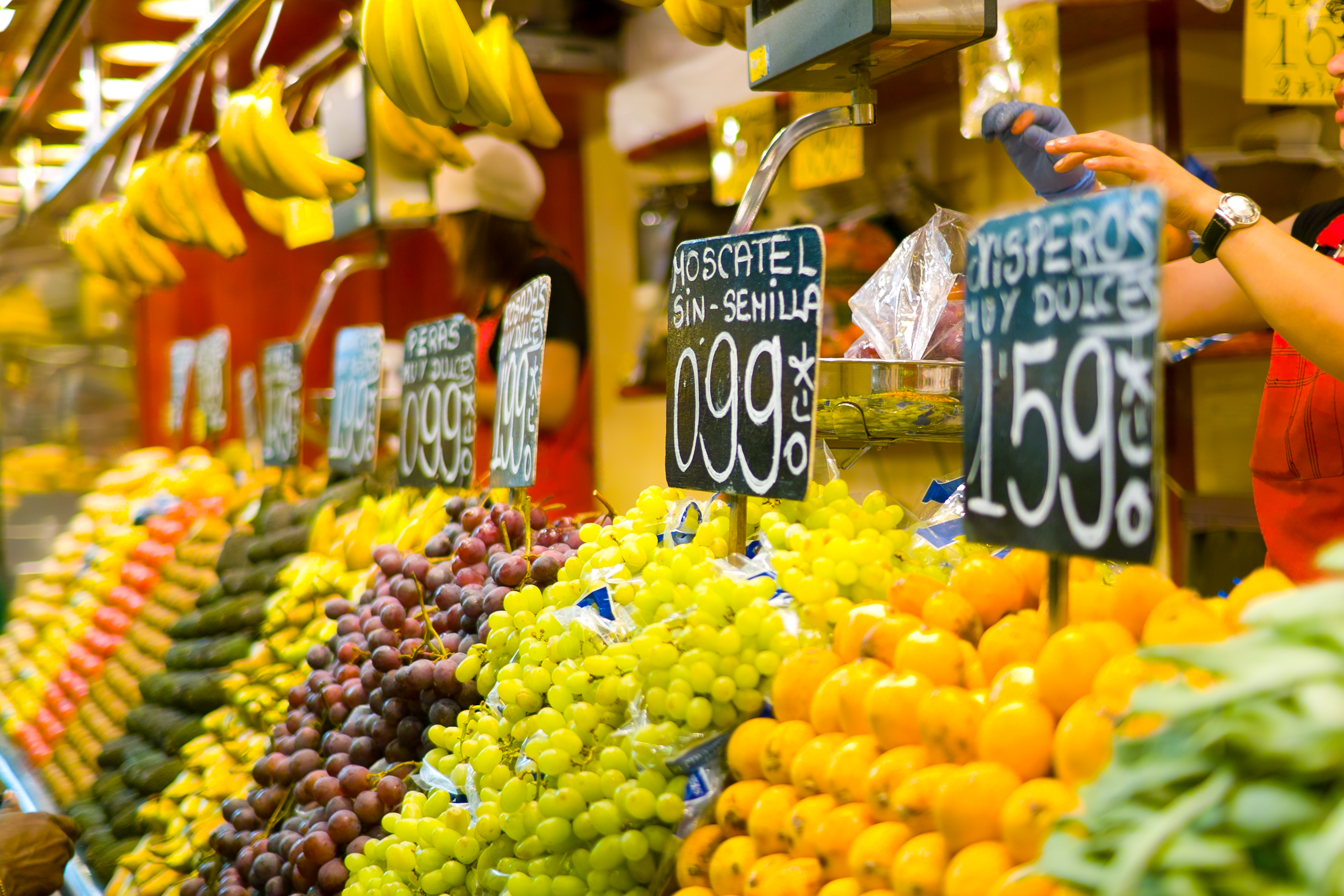 Barcelona